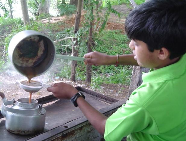 Making of chai